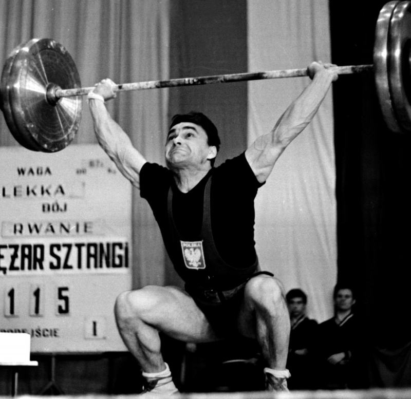 Marian Zieliński at a competition in Warsaw